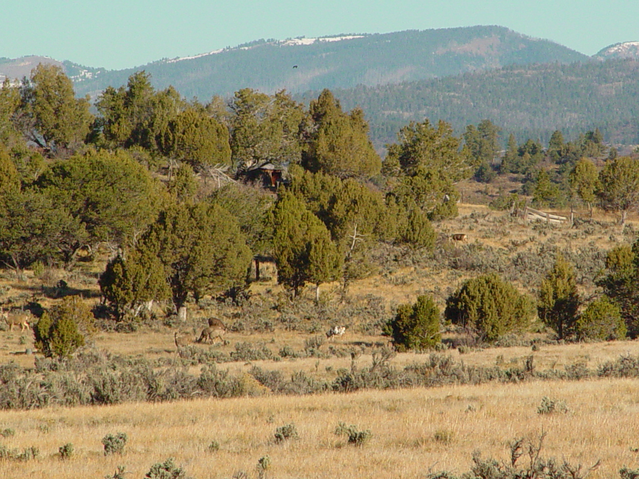 HD Mountains taken outside of Bayfield Colorado